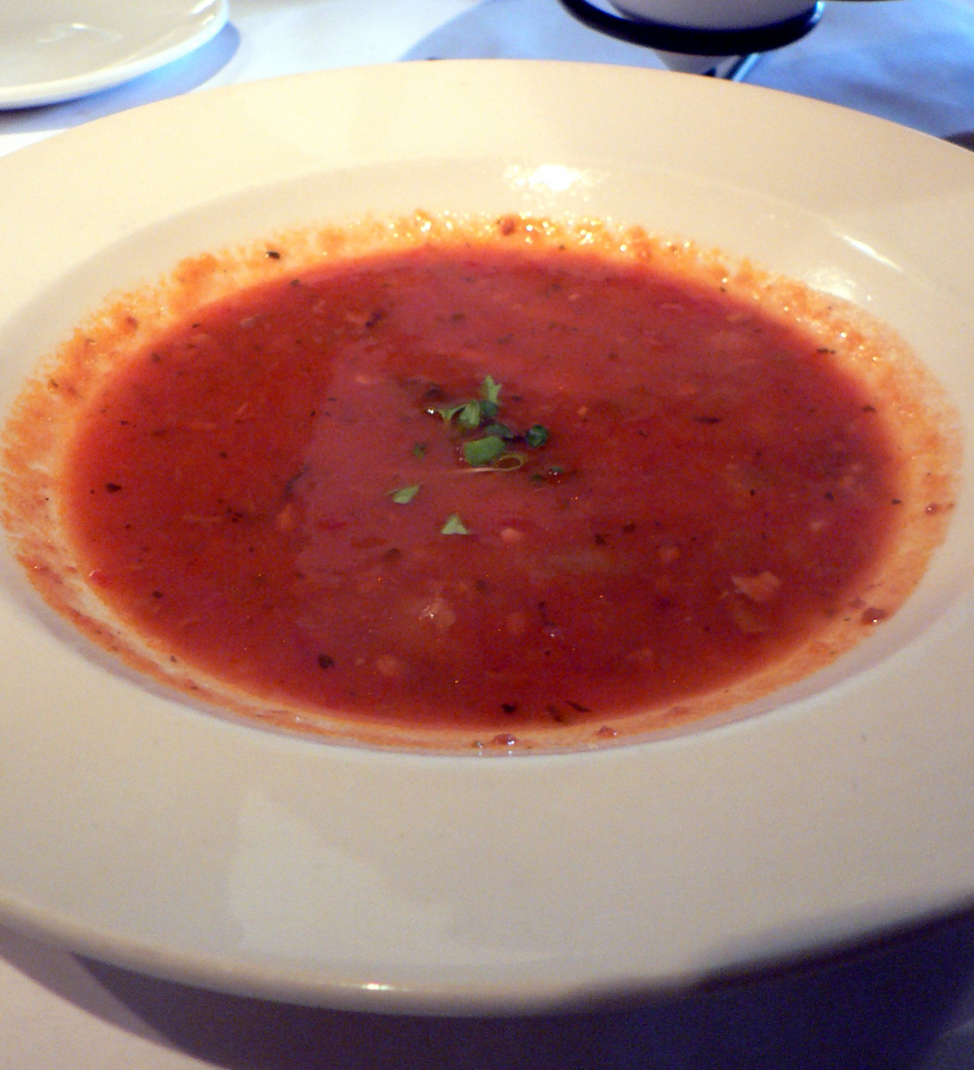 Manhattan clam chowder